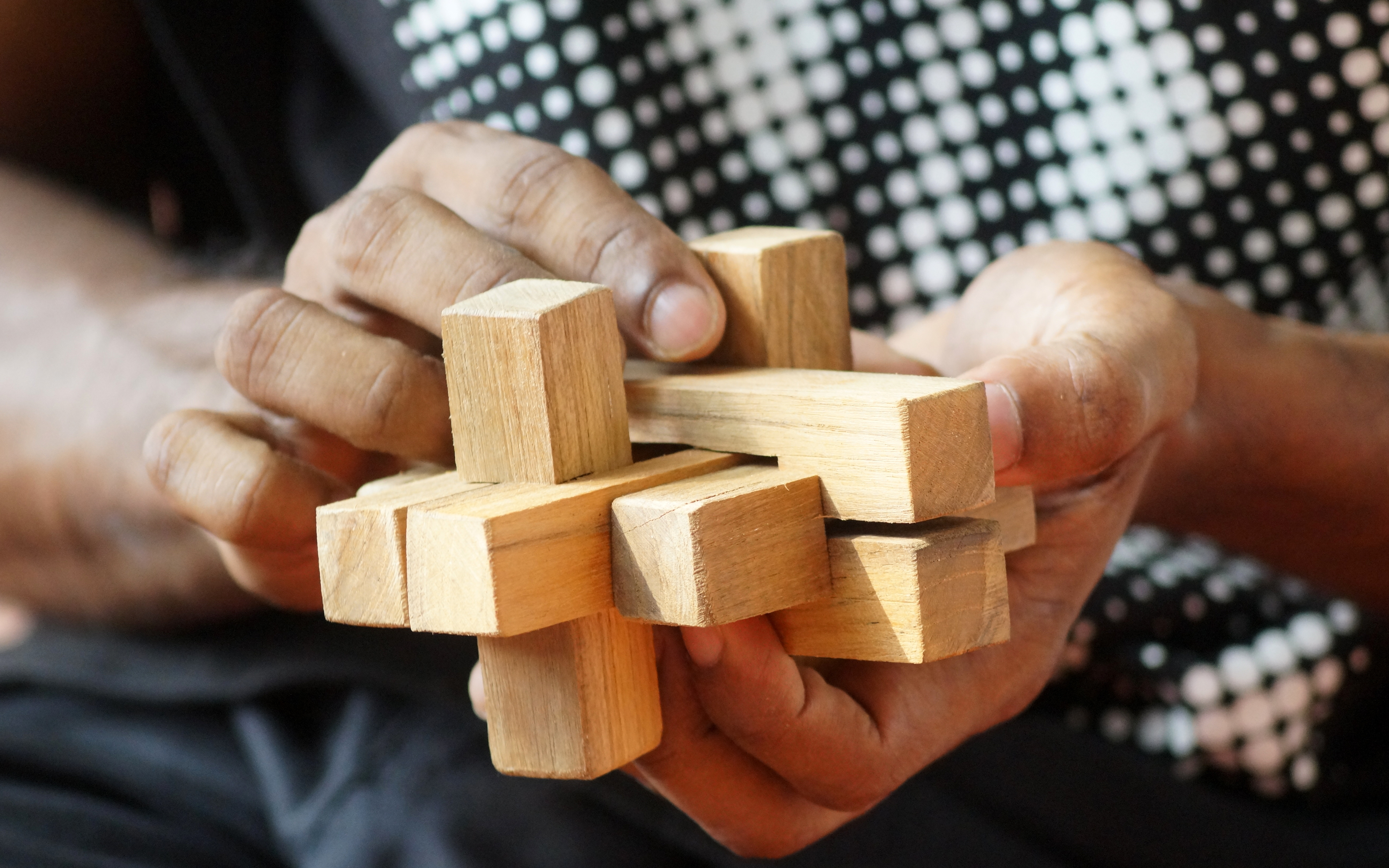 Edakoodam is a Traditional brain puzzle with Wood was popular in Kerala.